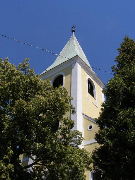 The Apátistvánfalvian Church